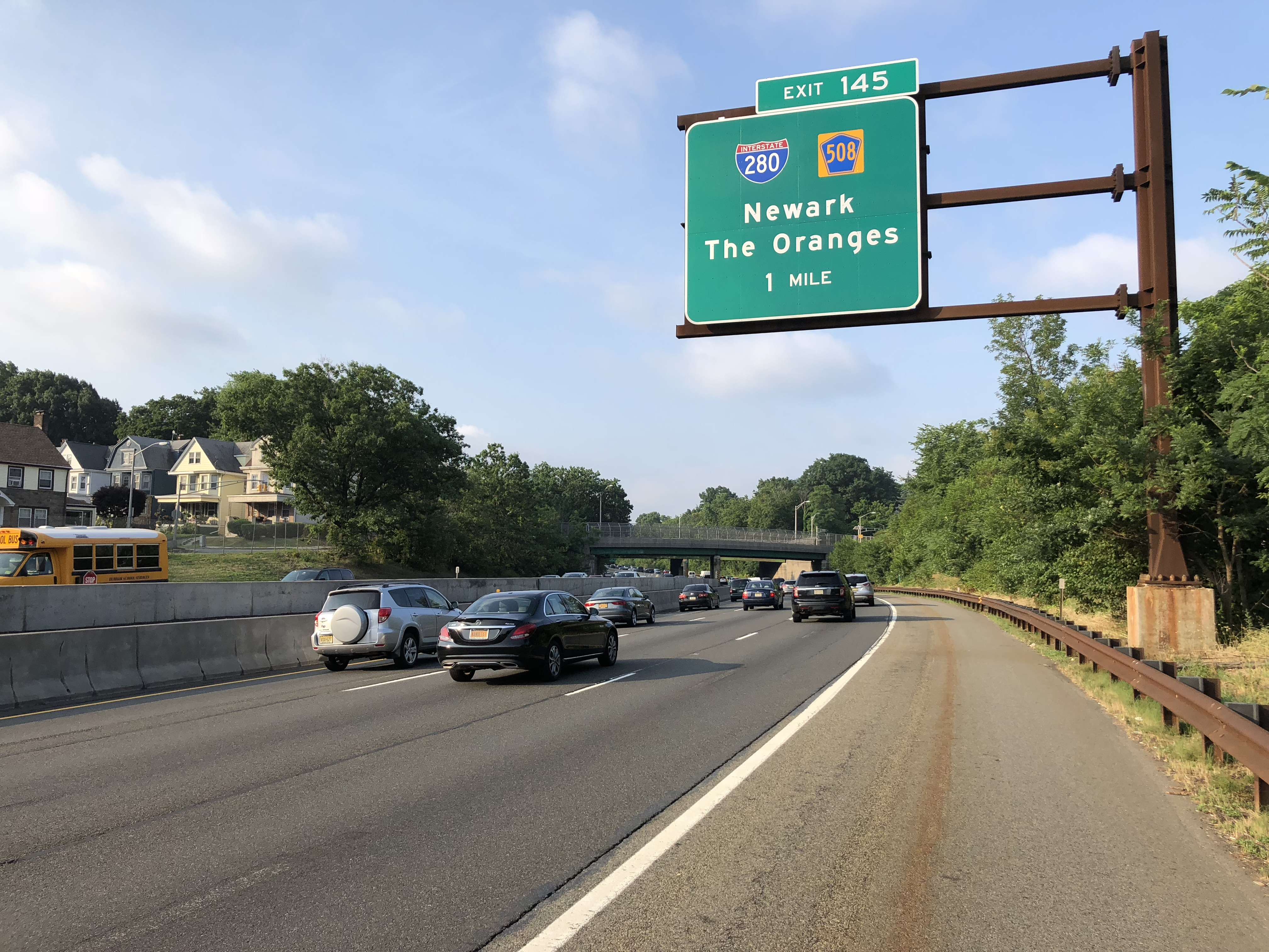 View south along New Jersey State Route 444 (Garden State Parkway) between Exit 147 at Exit 145 in East Orange, Essex County, New Jersey